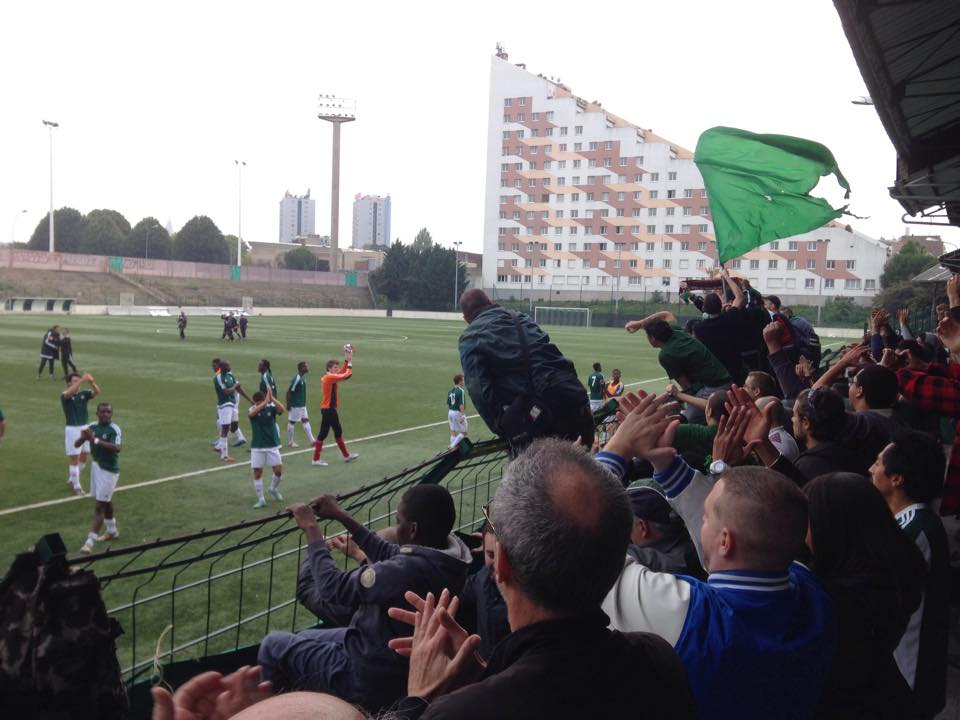 Stade Bauer, Tribune Rino, 4 Octobre 2015, Red Star B - Ararat Issy